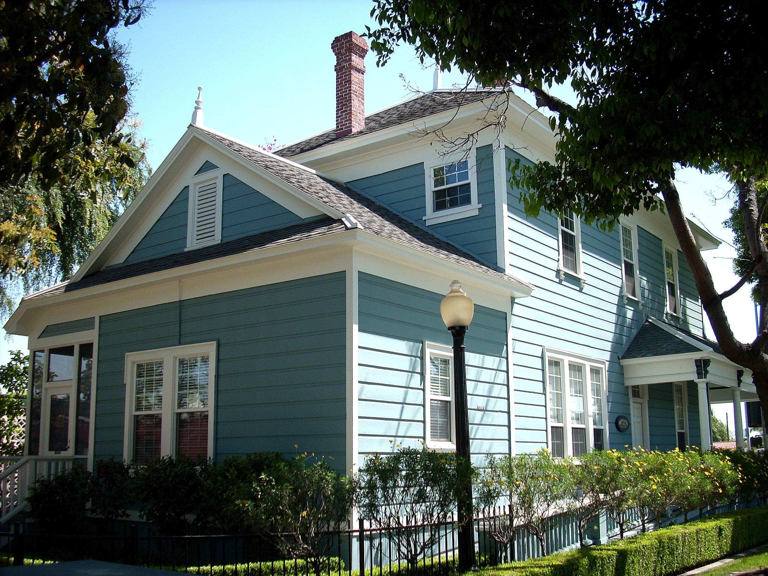 James George Bell House on Pine Ave. in Bell, California